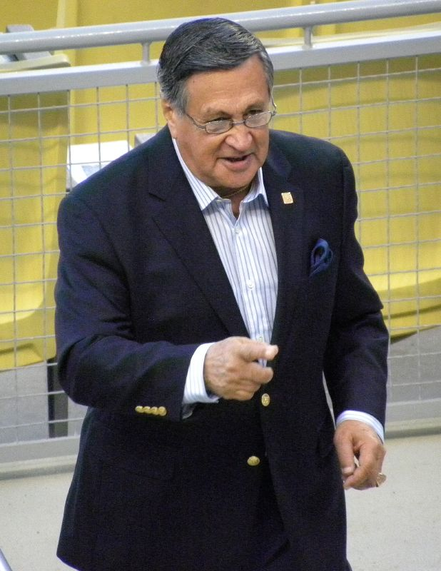 Los Angeles Dodgers spanish language broadcaster Jaime Jarrin at Game 1 of the 2009 NLDS.